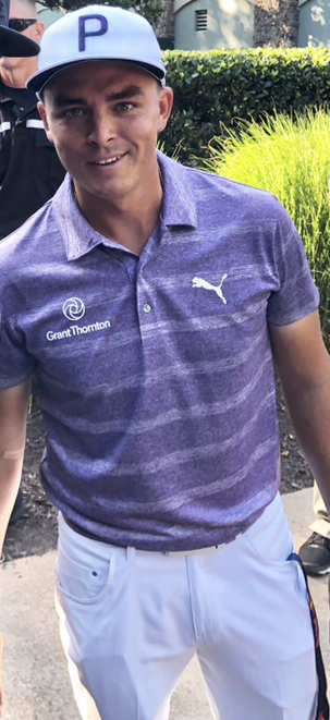 Fowler at the 2018 Quicken Loans National